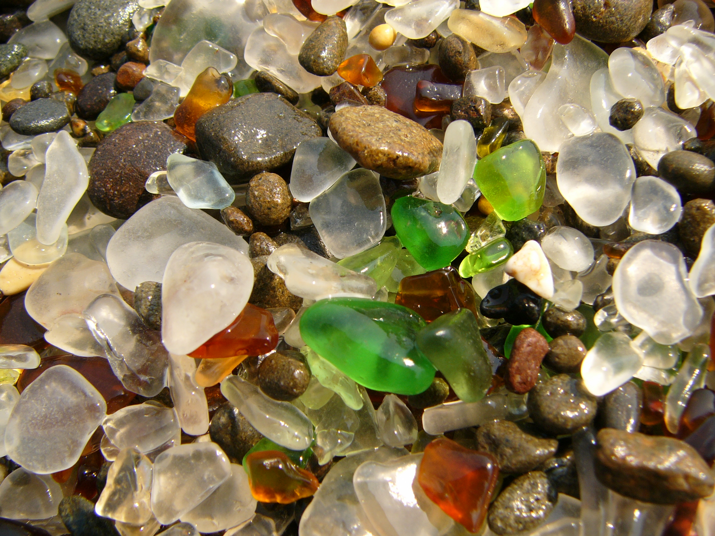 The Glass beach in Fort Bragg, California.